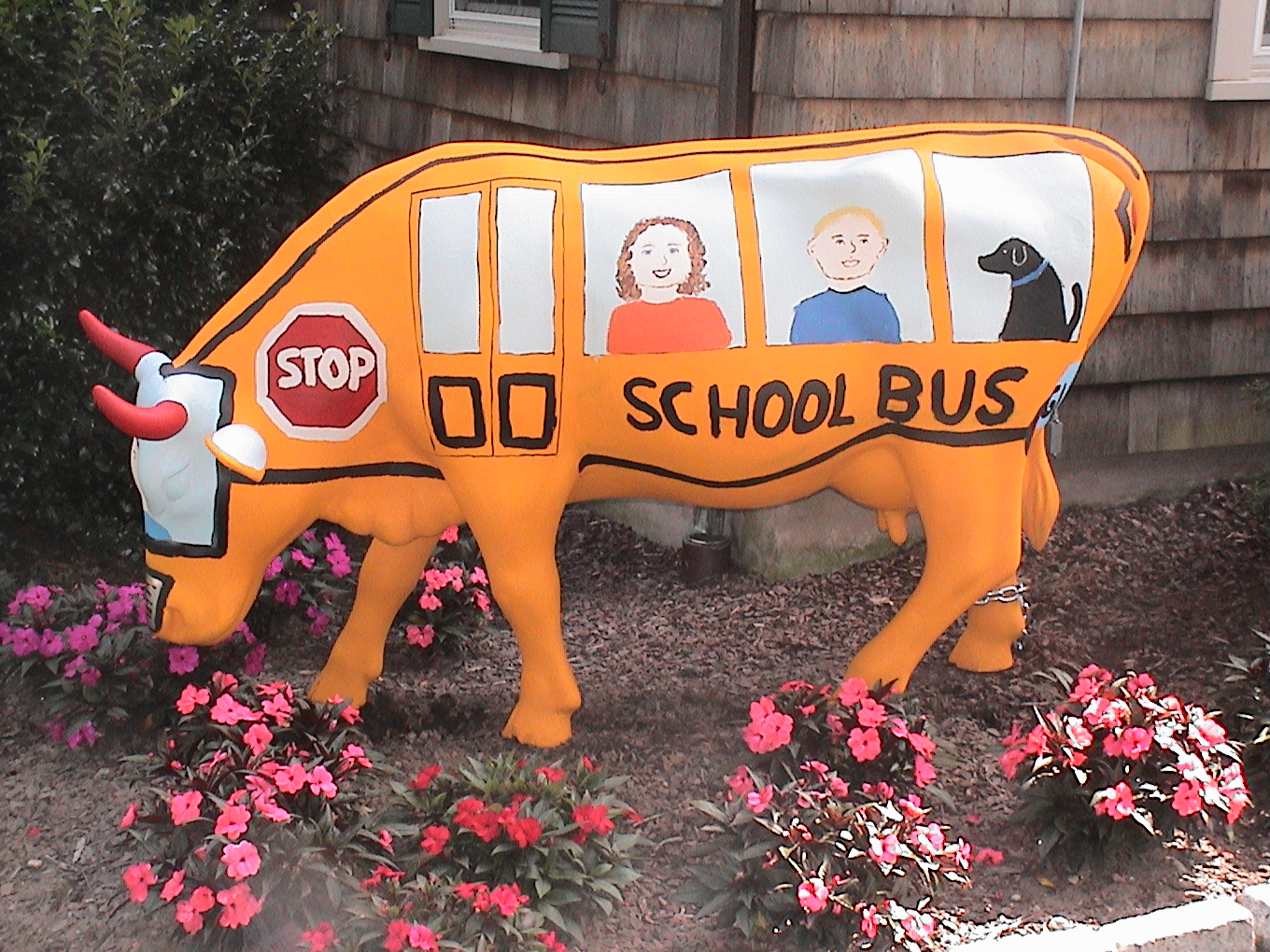 Gladys as a school bus